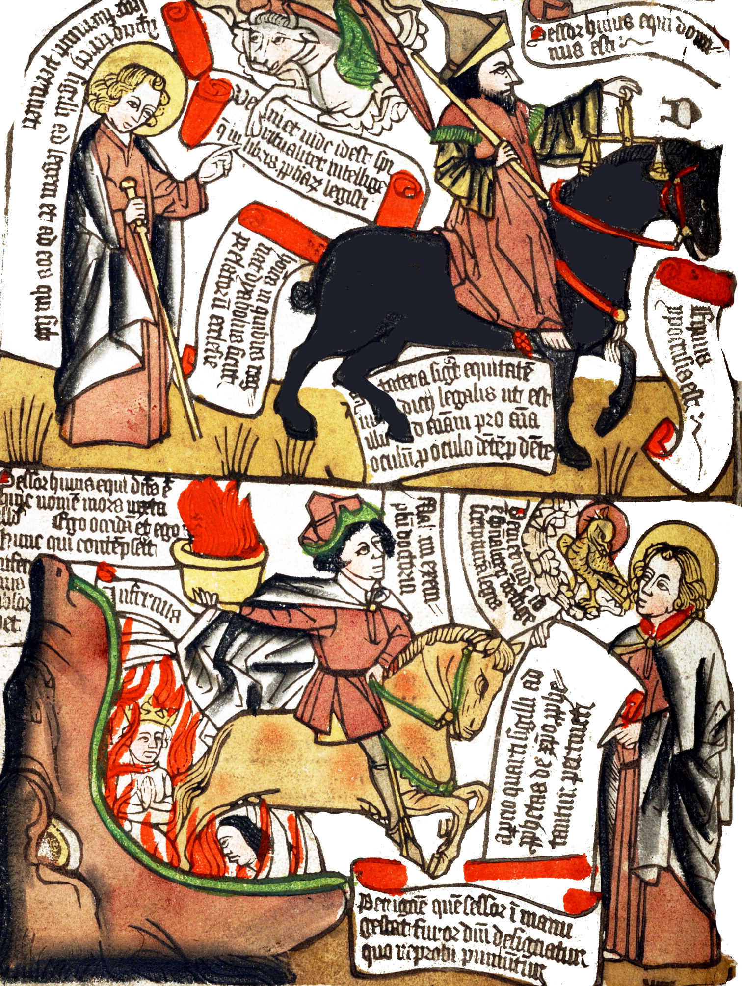 From the book Revelation. Selections. Latin. 1470 Incunabula Germany